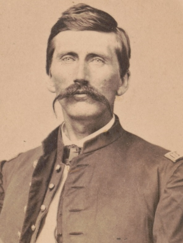 Sewall S. Farwell, Iowa Congressman, Union Army officer